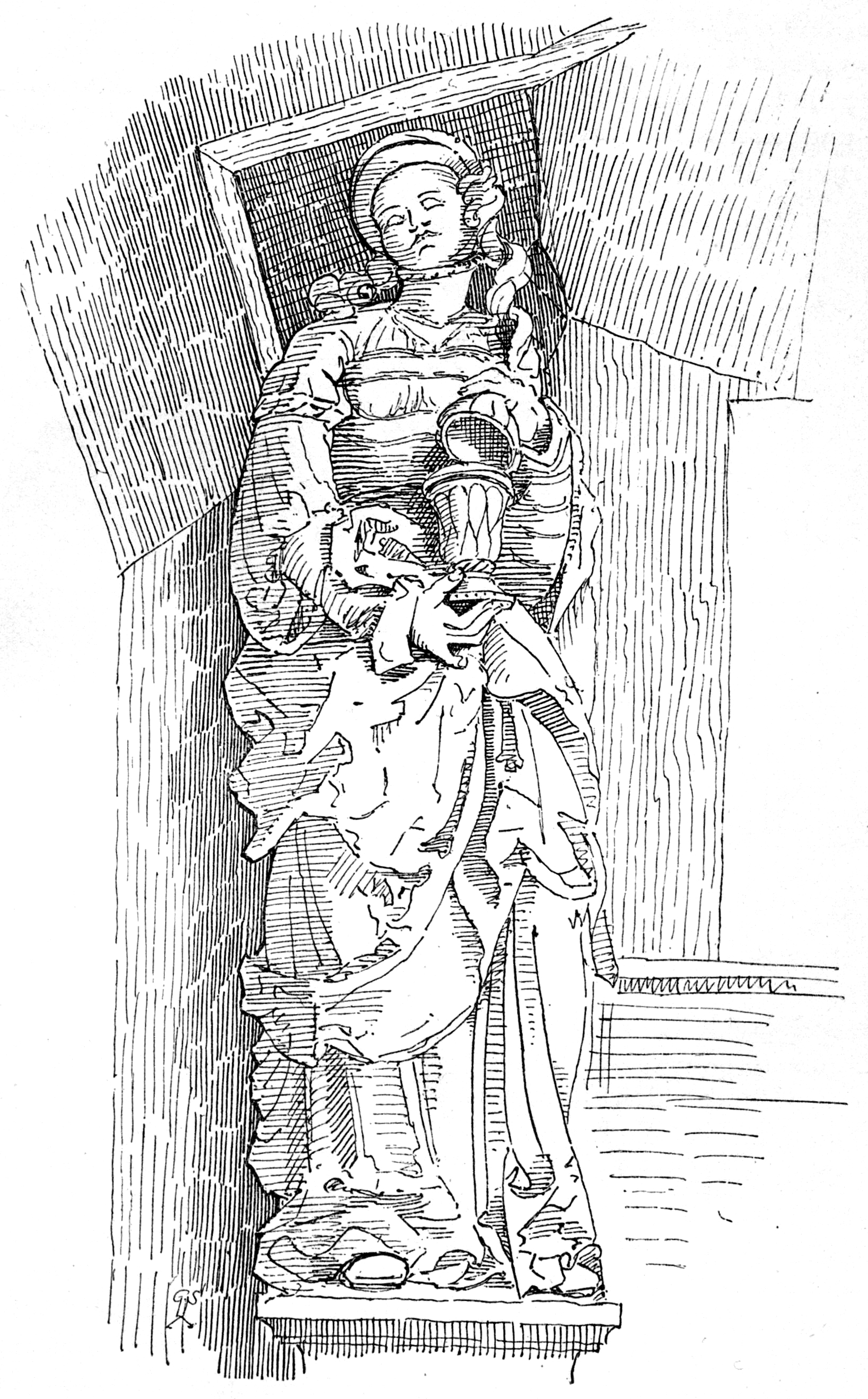 Maria Magdalena, Cathedral of Halle